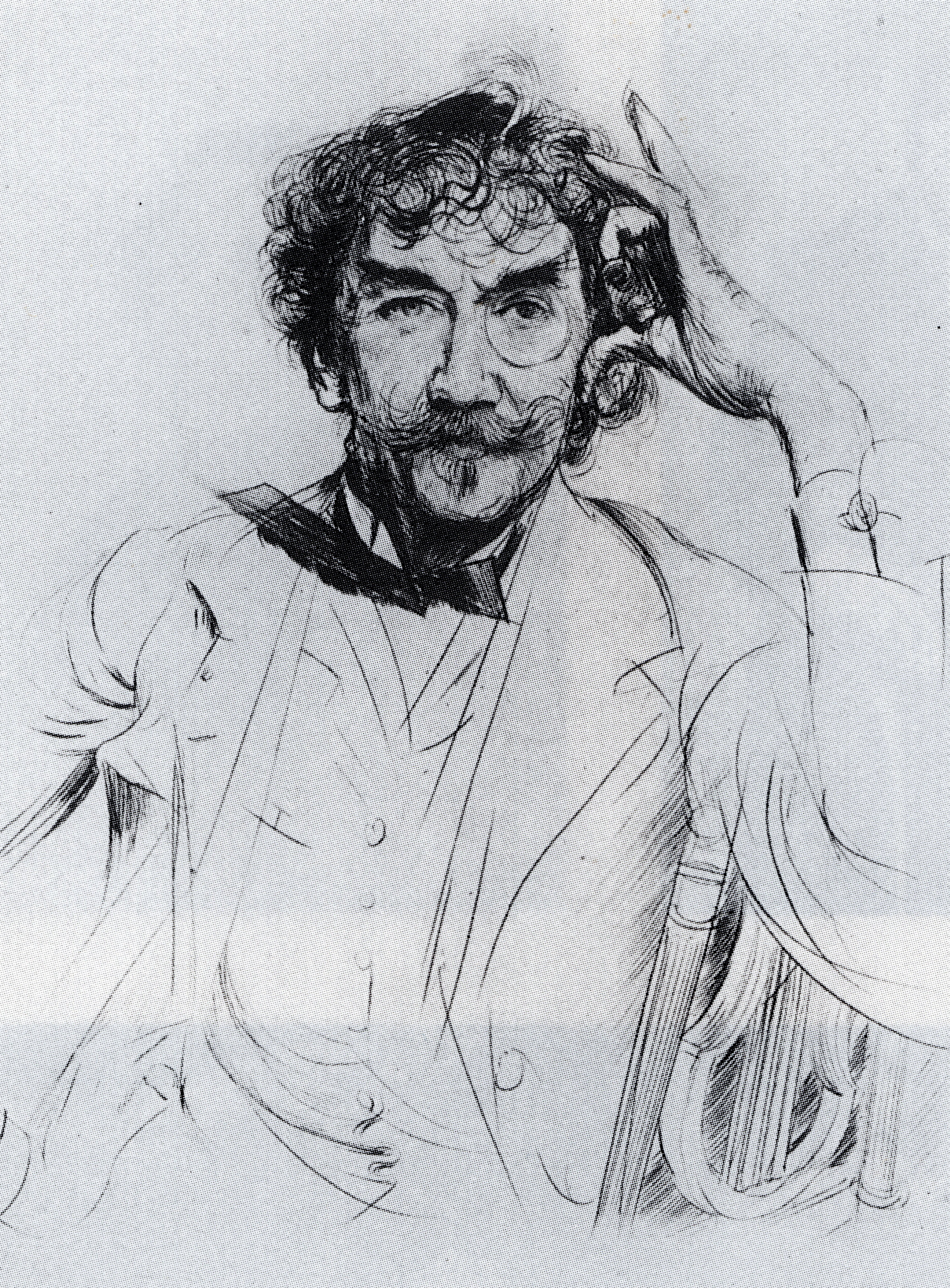 James McNeill Whistler